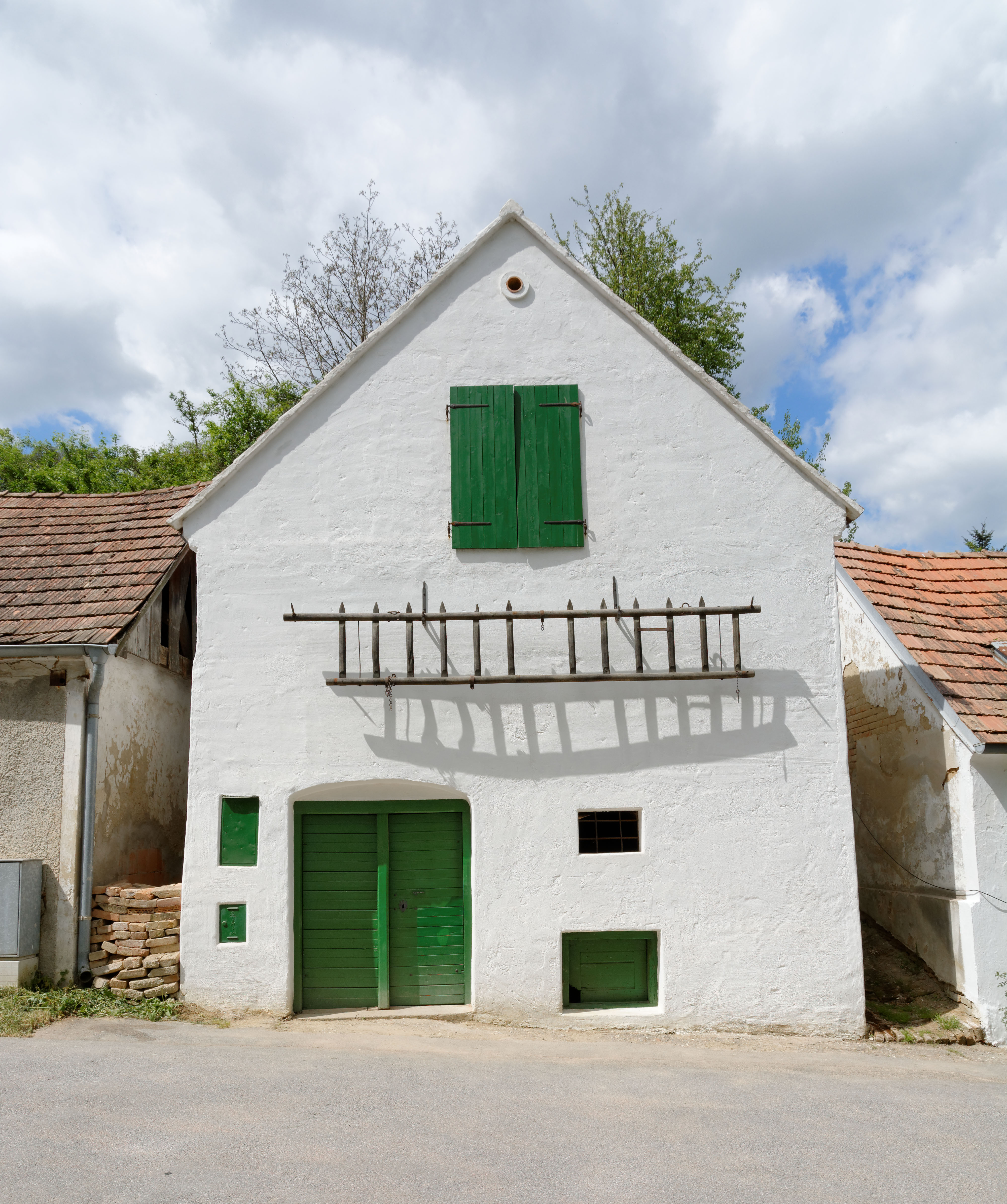 Wine cellar in Bogenneusiedl, Municipality Hochleithen, Lower Austria, Austria